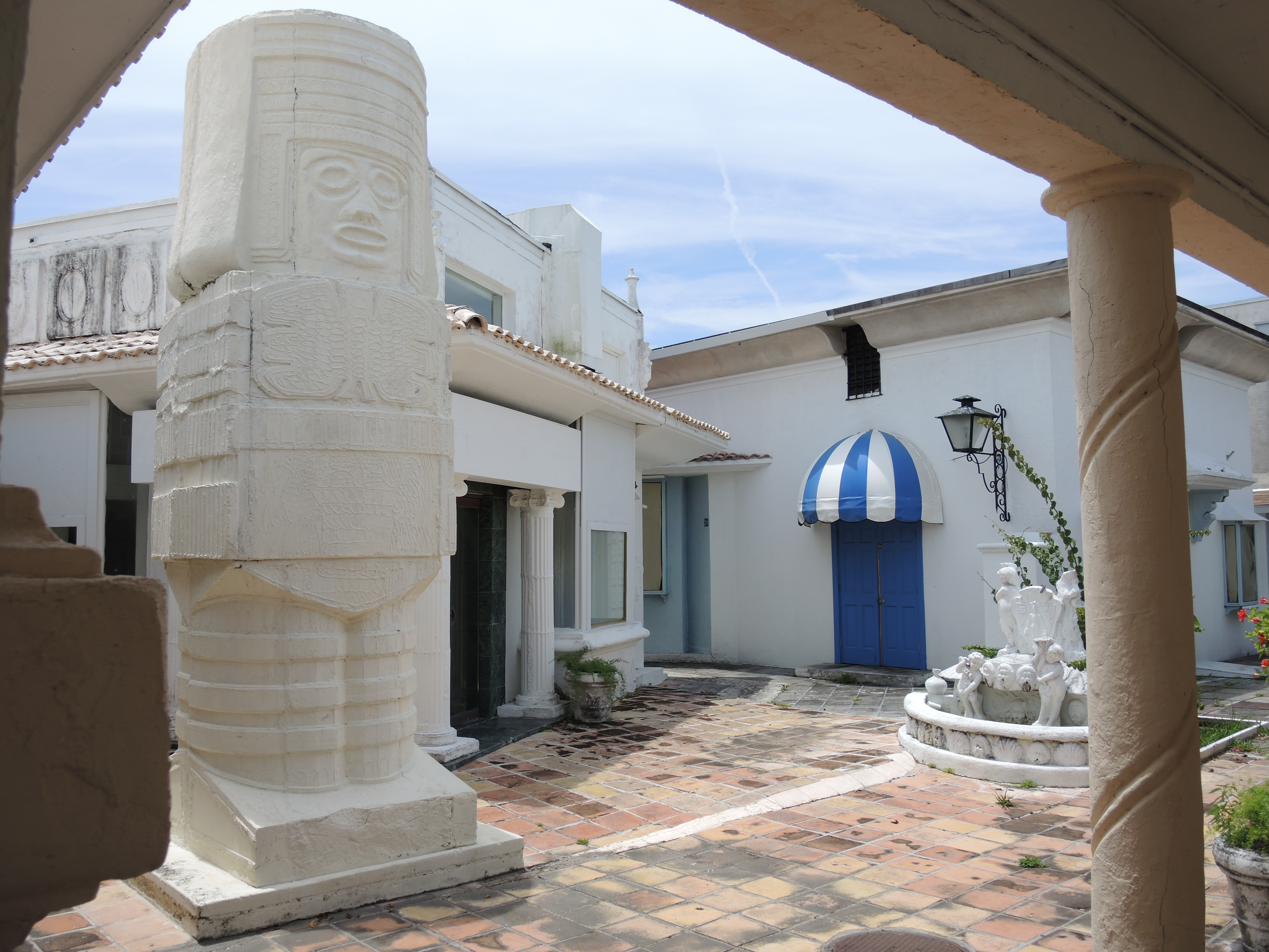 The International Bazaar square